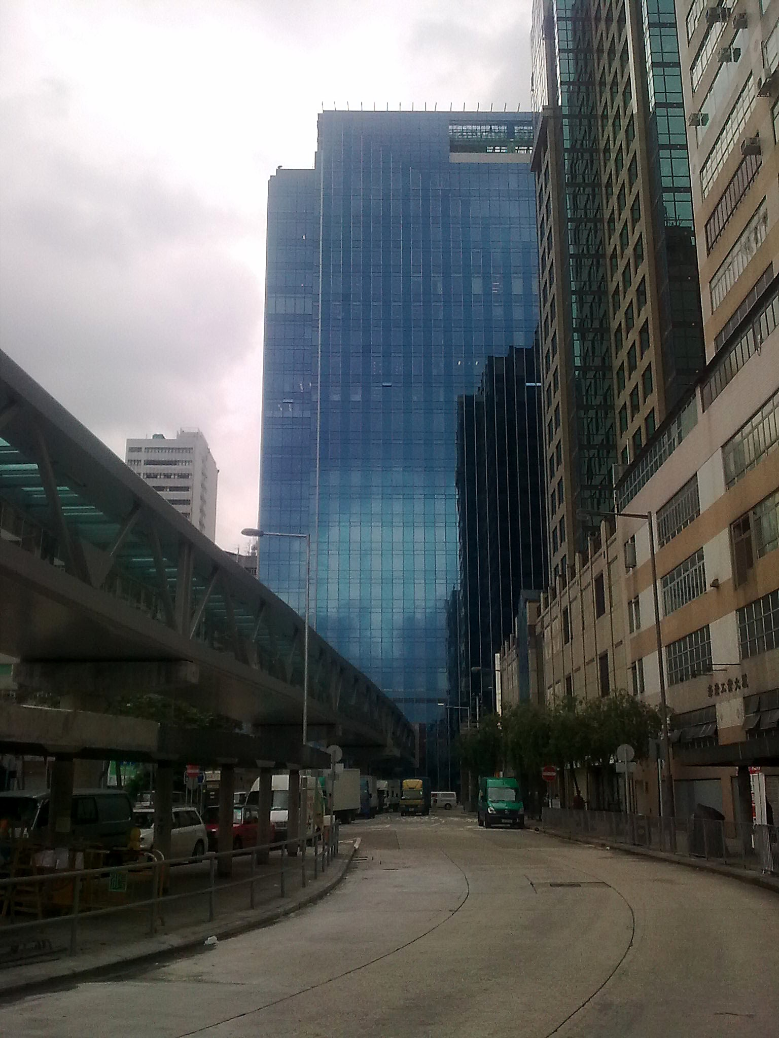 Kwun Tong 223 with its bridgelink to Kwun Tong Ferry Pier.